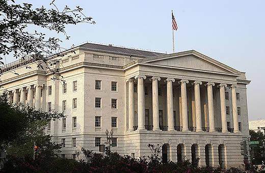 Image of the Longworth House Office Building taken from the webpage of the Architect of the Capitol: (